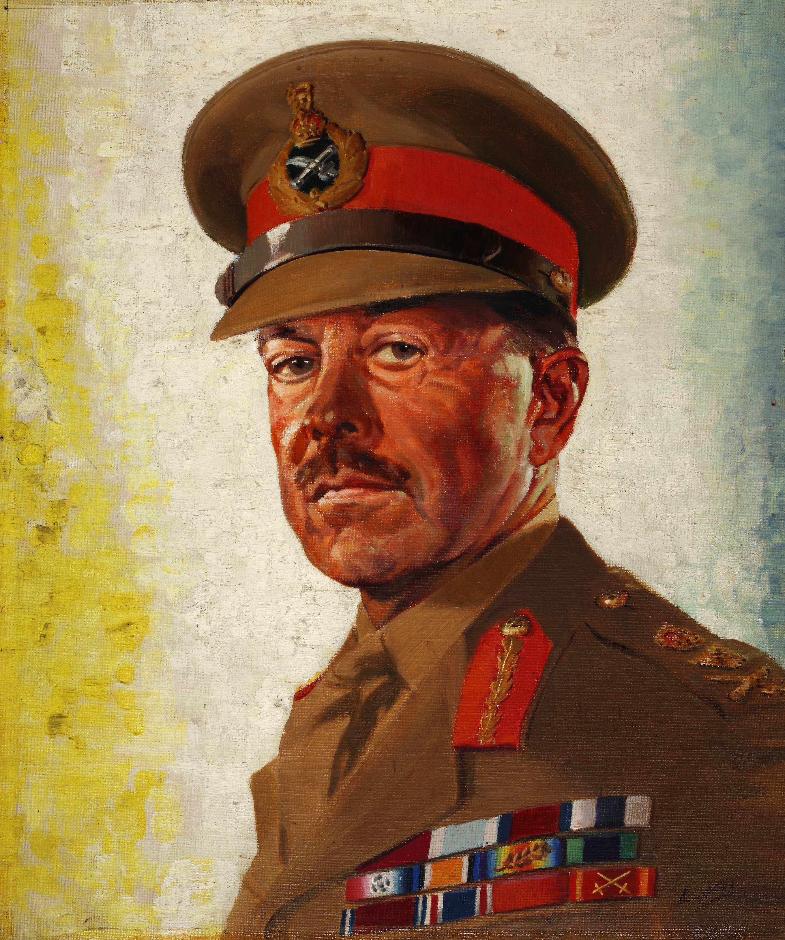 Sir Harold Alexander Depicted person: Harold Alexander, 1st Earl Alexander of Tunis